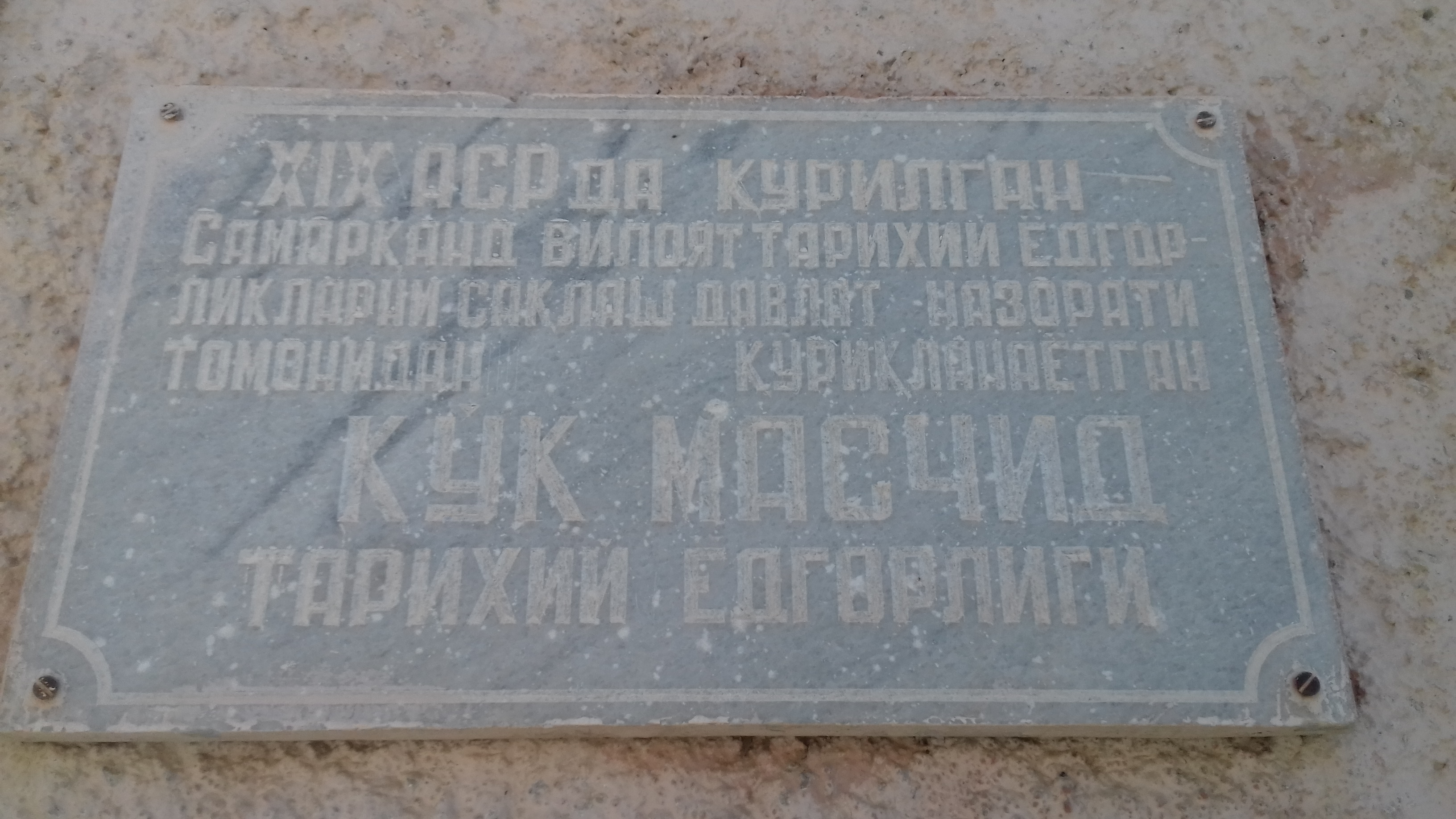 Table in Kuk Mosque in Samarkand (Uzbekistan)